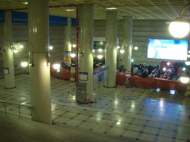 Pyeongchon Station